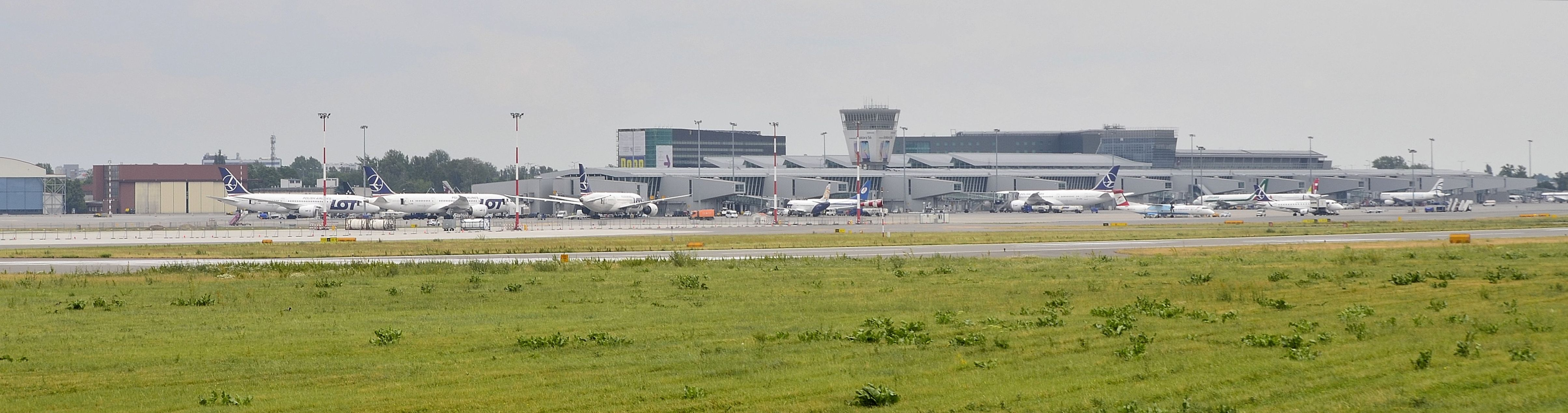 Chopin Airport in Warsaw viewed from Krakowska Avenue